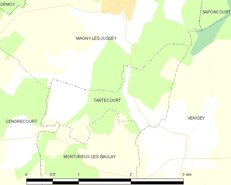 Map of French municipality